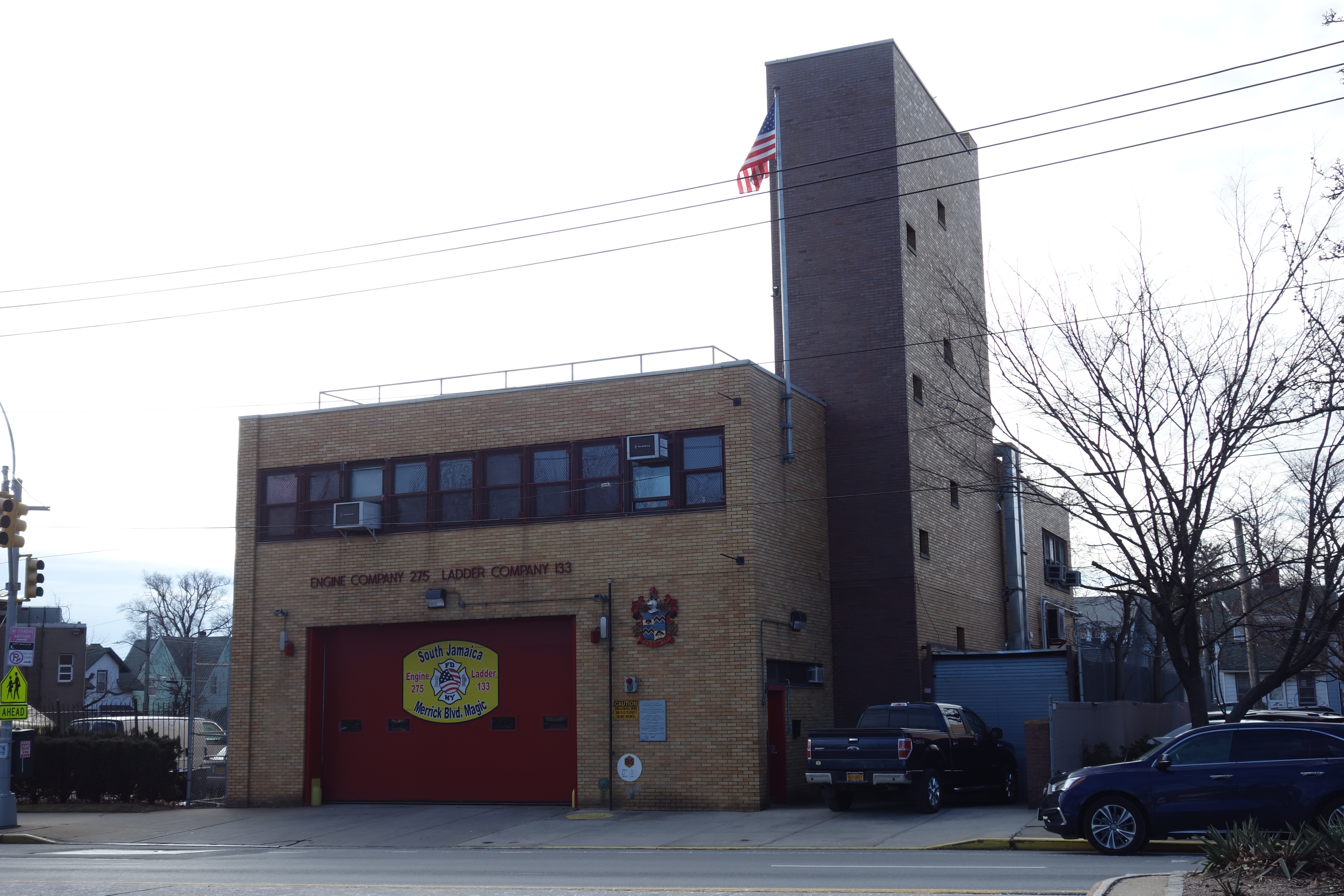 Looking at an FDNY firehouse (Engine Company 275, Ladder Company 133), on the west side of Merrick Boulevard at 111th Road in South Jamaica / St. Albans, Queens.